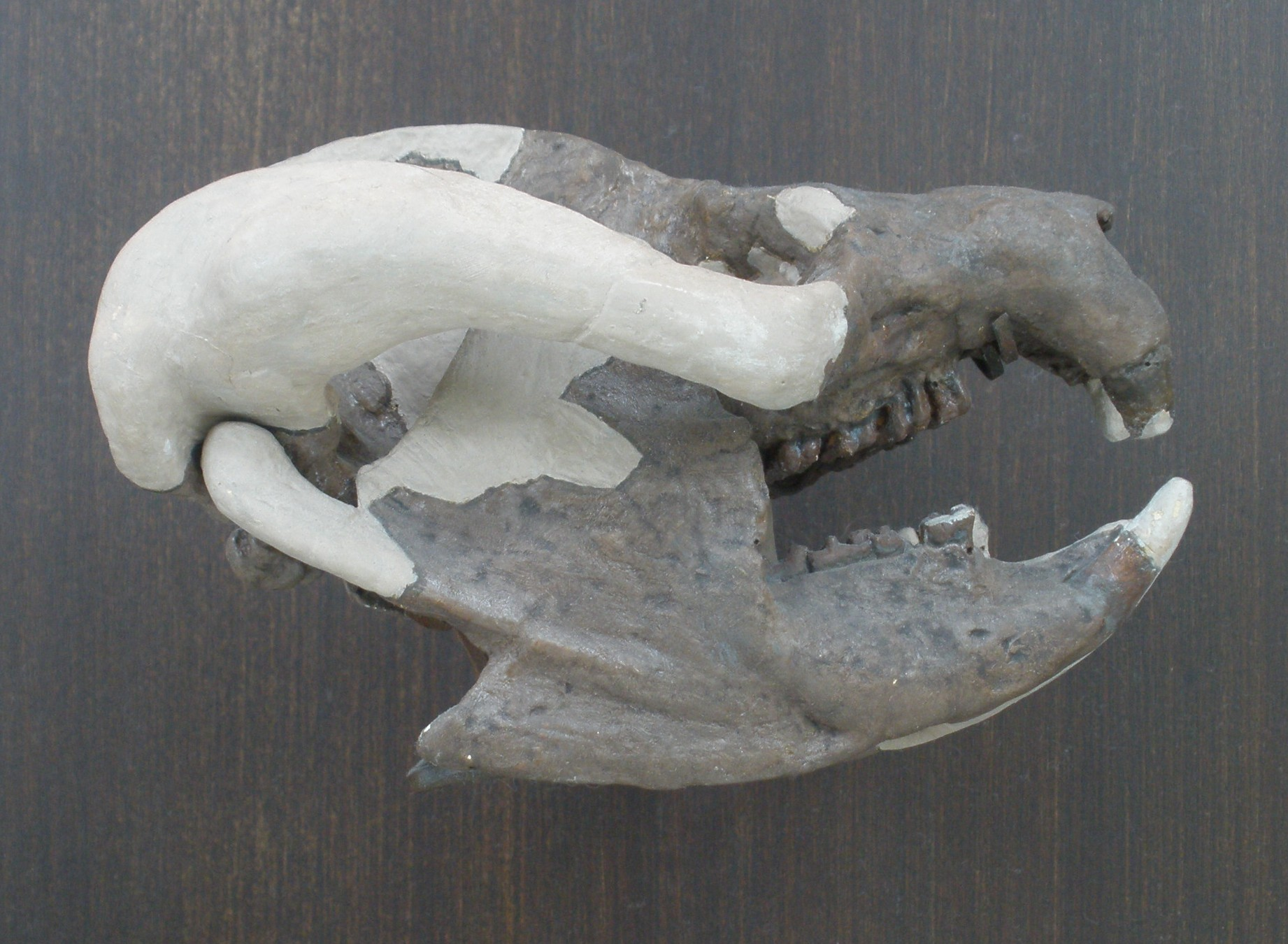 Skull of Bienotherium yunnanense, a fossil therapsid